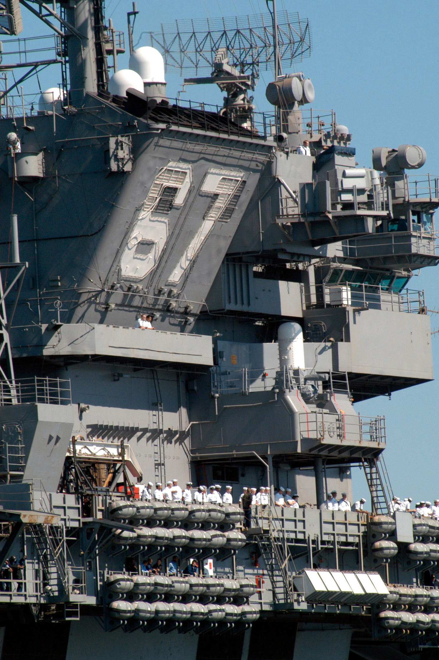 A close up view of the island superstructure aboard the US Navy (USN) Aircraft Carrier, USS JOHN F. KENNEDY (CV 67), showing Sailors manning the rails, as the ship arrives at Naval Air Station Pensacola, Florida (FL), for a four-day port visit following the completion of a Composite Training Unit Exercise (COMTUEX) in the Gulf of Mexico. COMPTUEX is an intermediate level exercise designed to forge the strike group into a cohesive fighting team and is a critical step in pre-deployment training. Location: USS JOHN F. KENNEDY (CV 67), FLORIDA (FL) UNITED STATES OF AMERICA (USA)